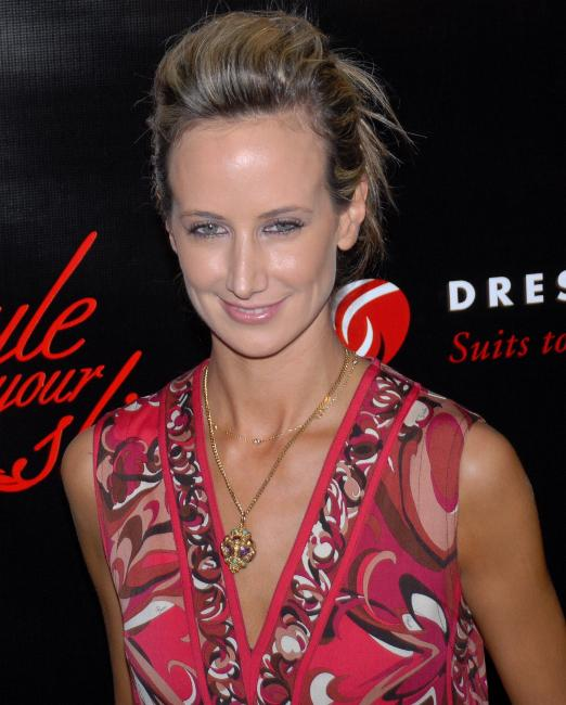 Socialite Victoria Hervey at the Slim-Fast Fashion Show